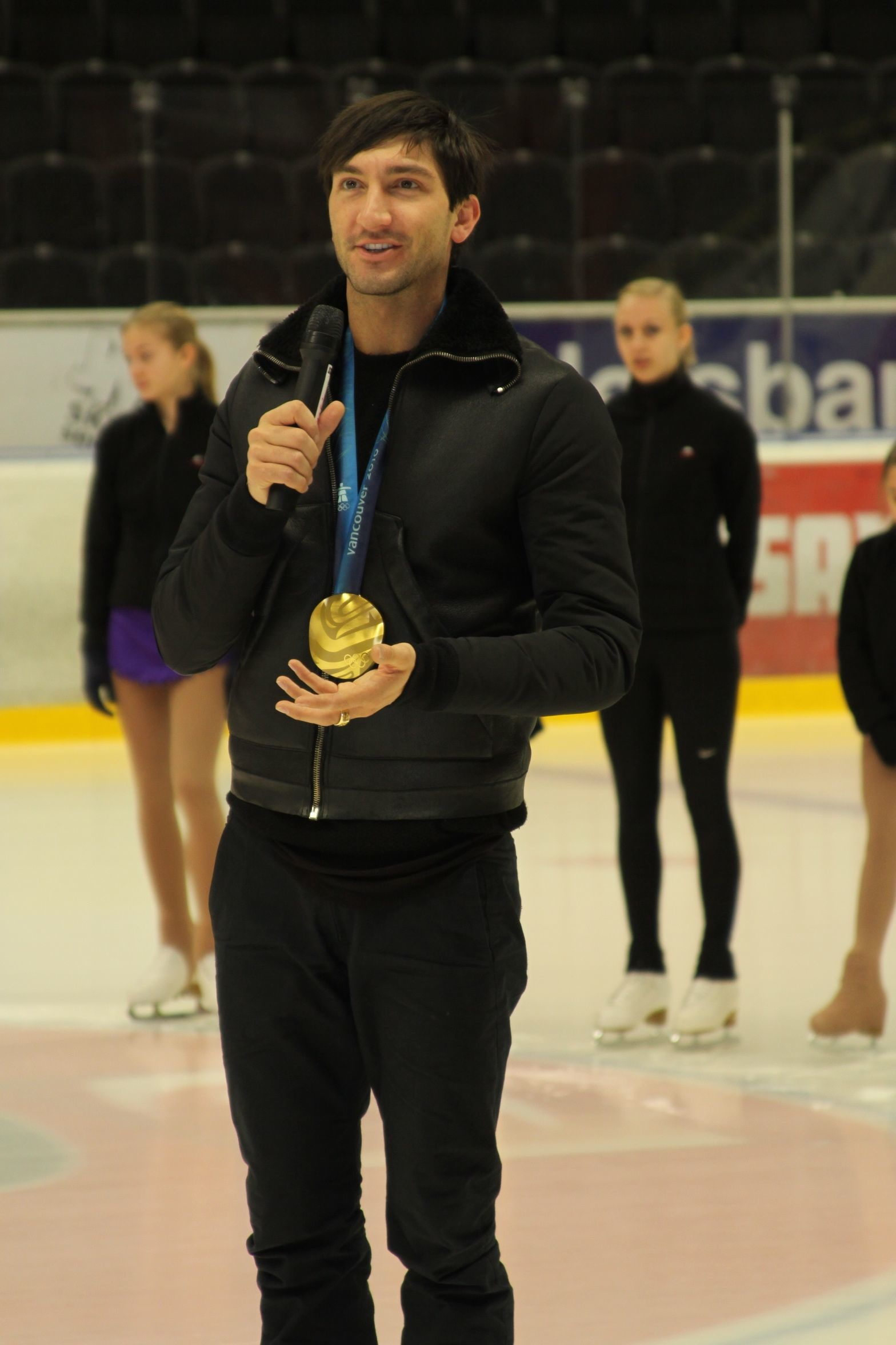 On April 10, 2012 Olympic Gold Medalist and State Department Sports Envoy Evan Lysacek visited Södertälje in conjunction with SSK, Södertälje kommun and Sports Without Borders to hold a clinic for aspiring skaters and to encourage and inspire them to go for the gold!